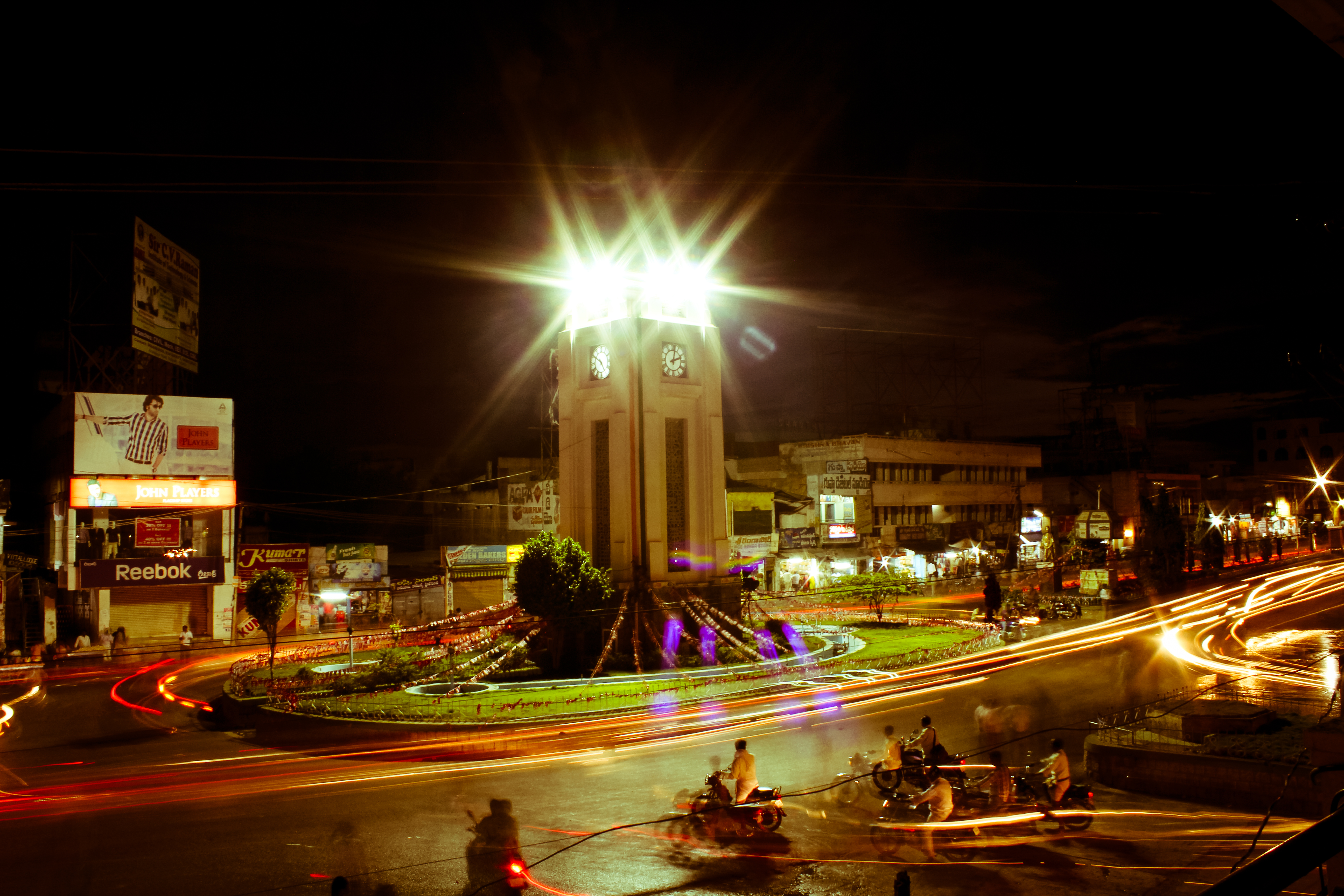 Clock Tower at night